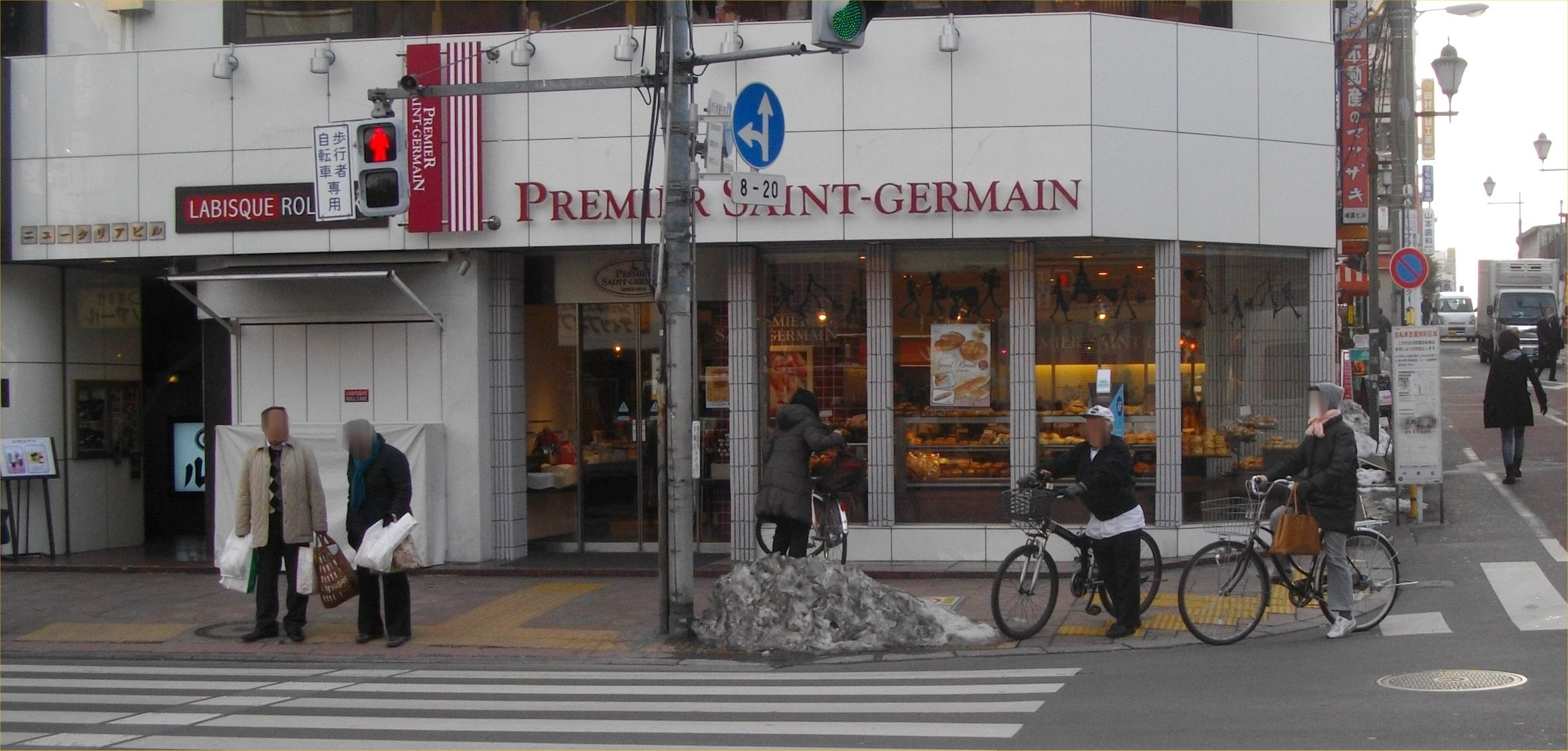 A photo of PREMIER SAINT GERMAIN(A bakery in Tokyo.) Nakano branch shop,Nakano,Nakano-ku,Tokyo,Japan.